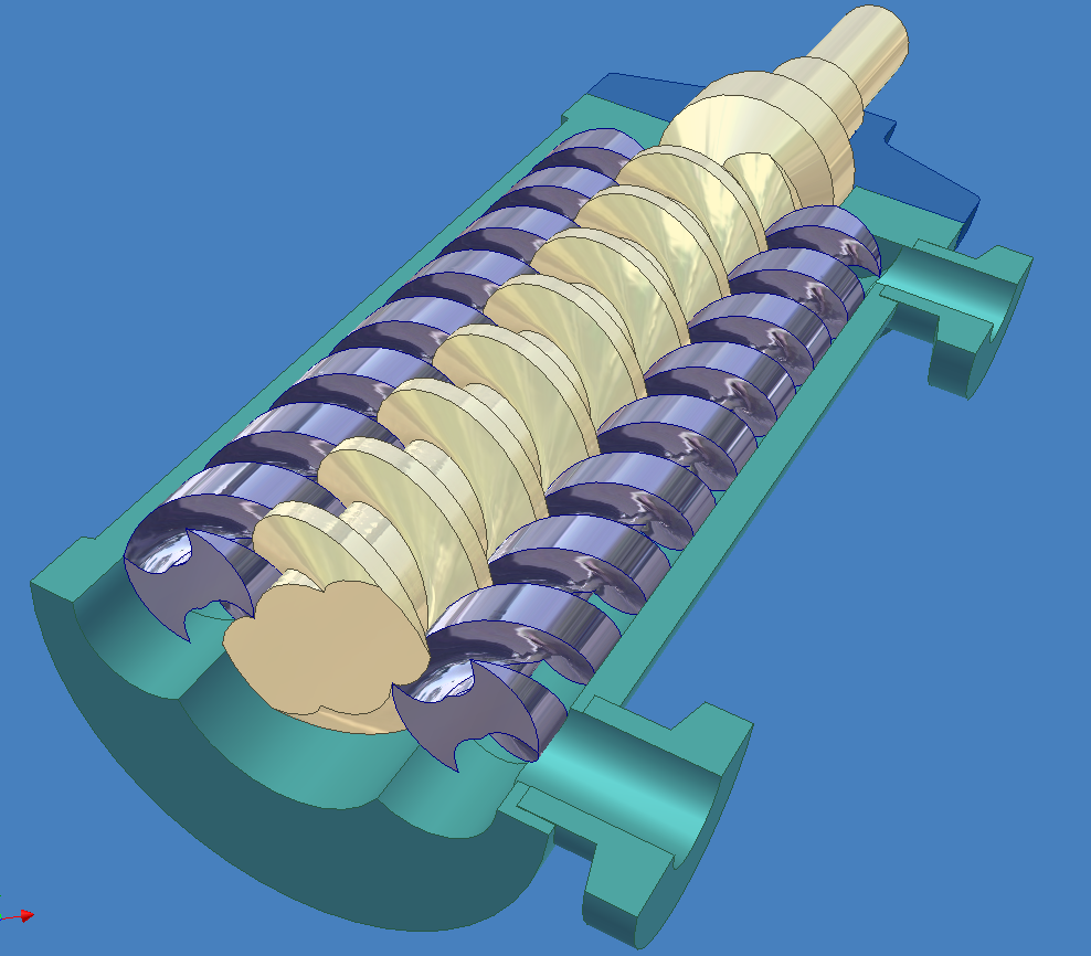 Cross section of a screw pump